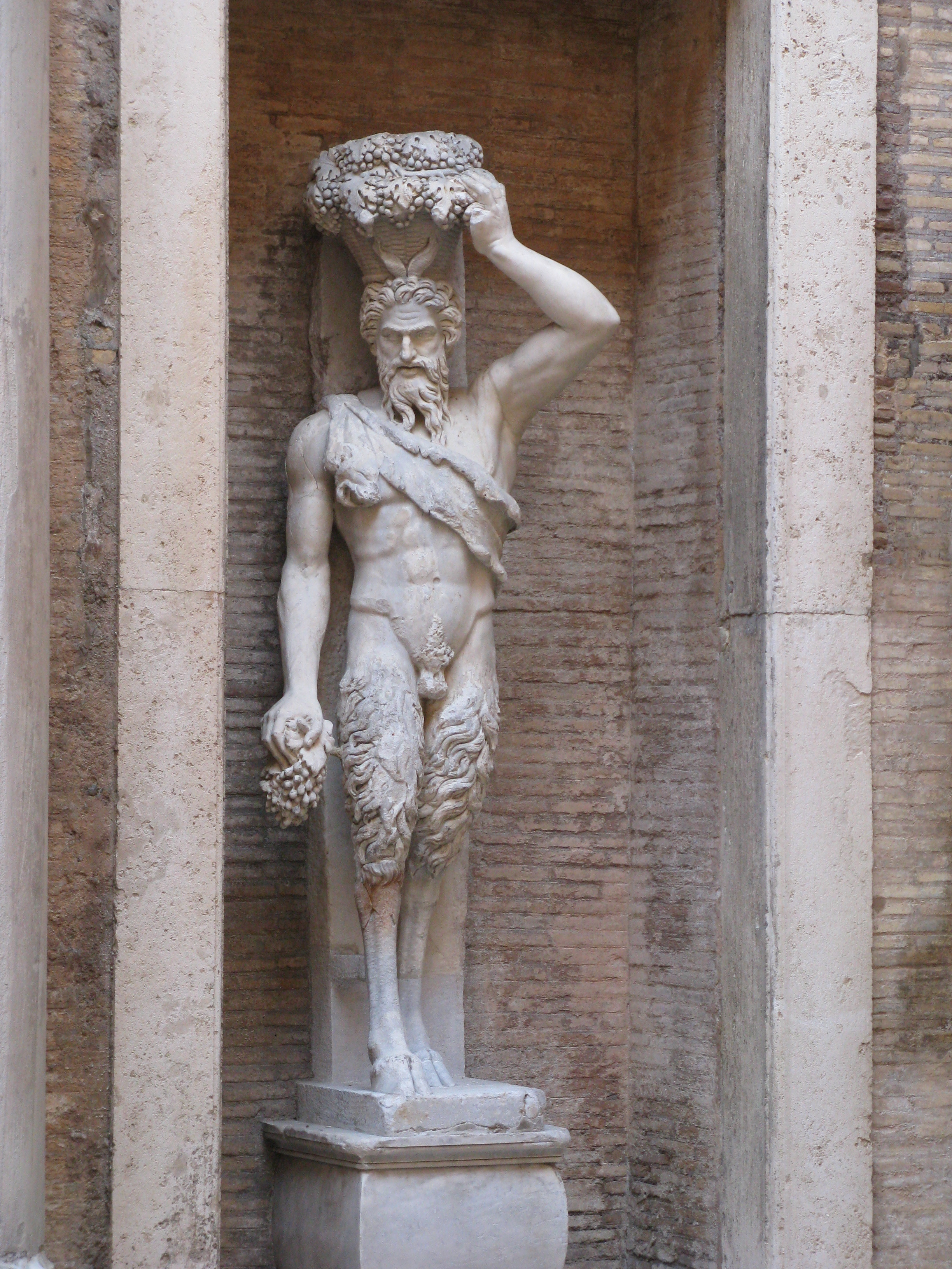 One of two statues known as Della Valle Satyrs at Musei Capitolini (Rome).